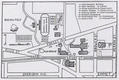 1918 map of the Michigan State Normal College campus (now Eastern Michigan University).